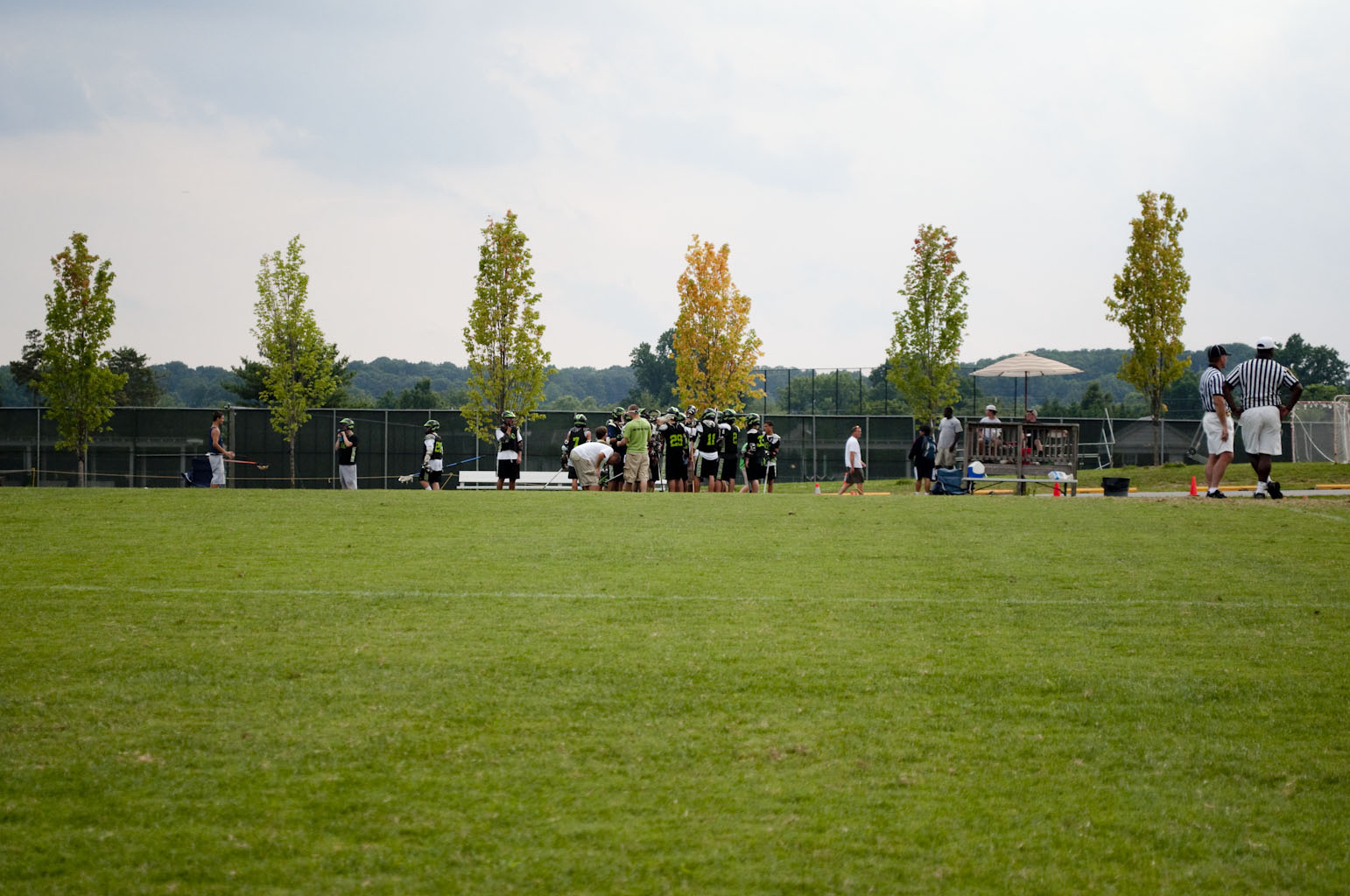 a tree forgetting the season